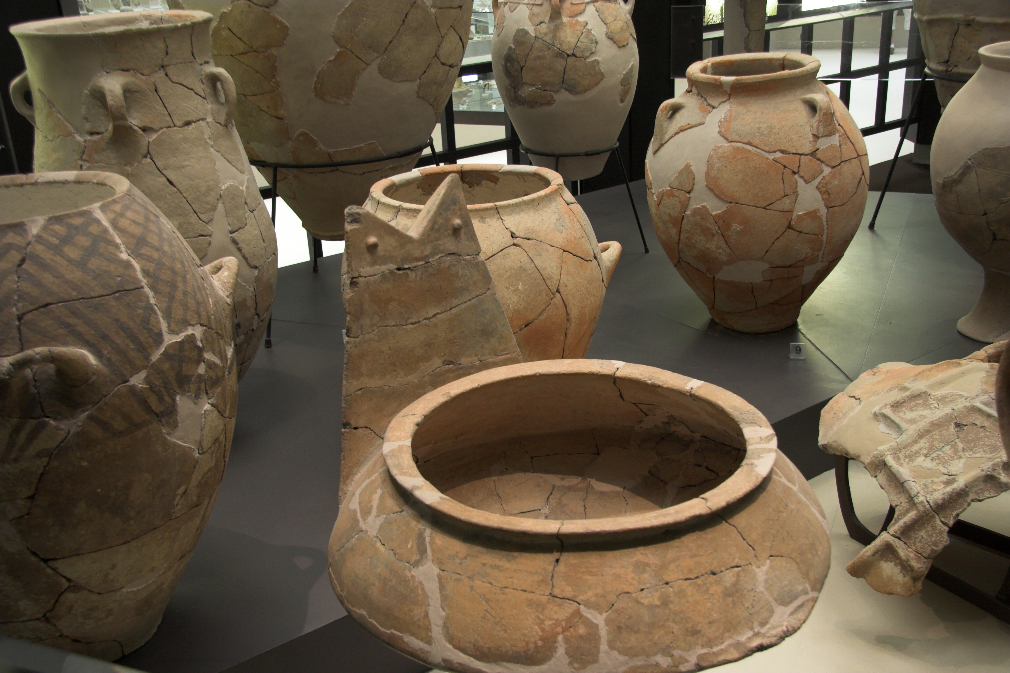 Large pottery of Thapsos, Sicily, 1500-1200 BC. Archaeological Museum of Syracuse.